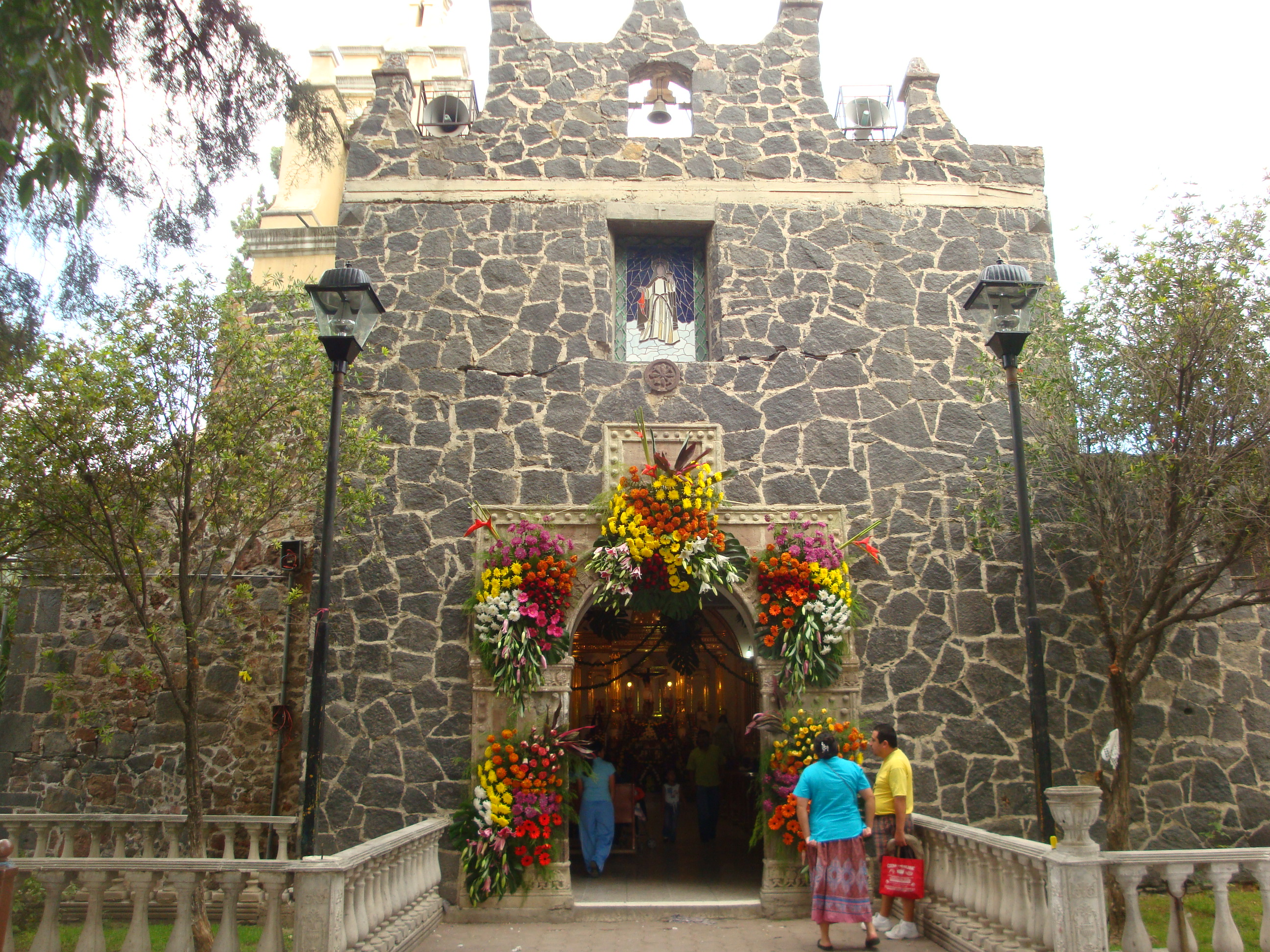 St. Mary Magdalene's Church in La Paz, Mexico State.